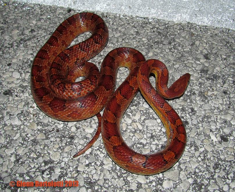 Corn Snake large gravid female